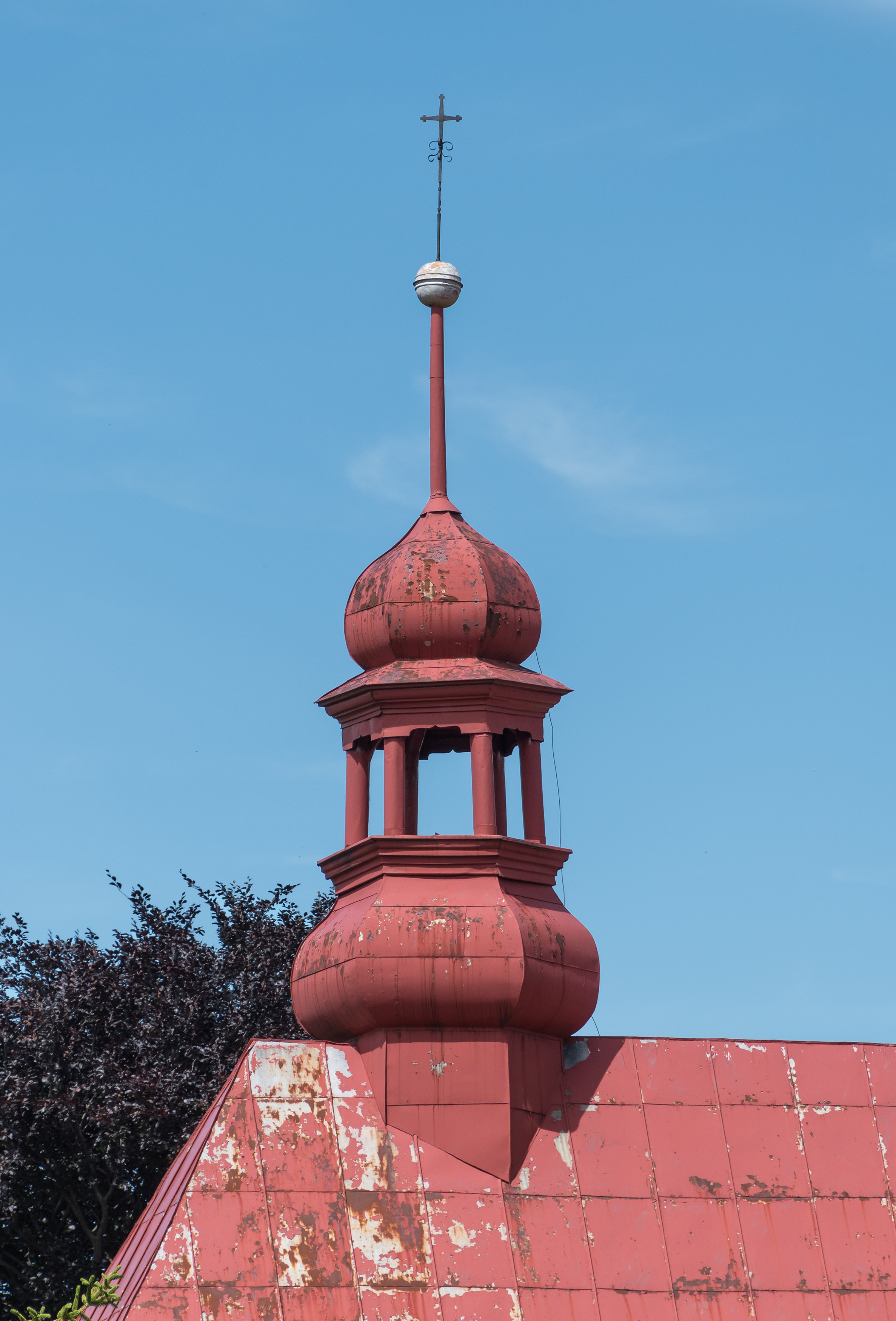 Saint Joseph church in Bolesławów